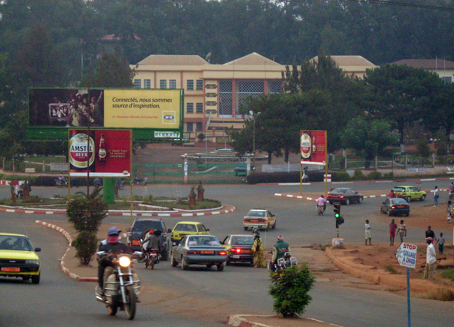 Bafoussam - Cameroon